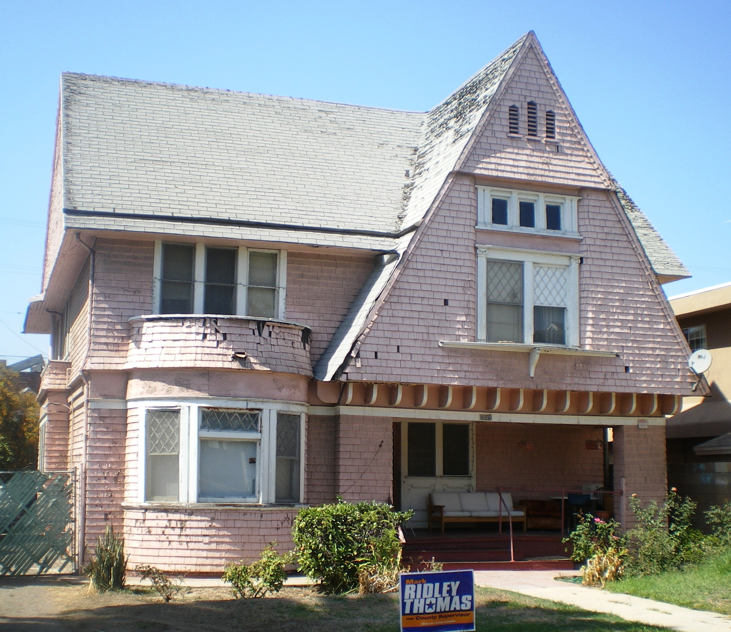 House at 2827 South Menlo Avenue, Los Angeles, California (South Menlo Avenue Historic District)